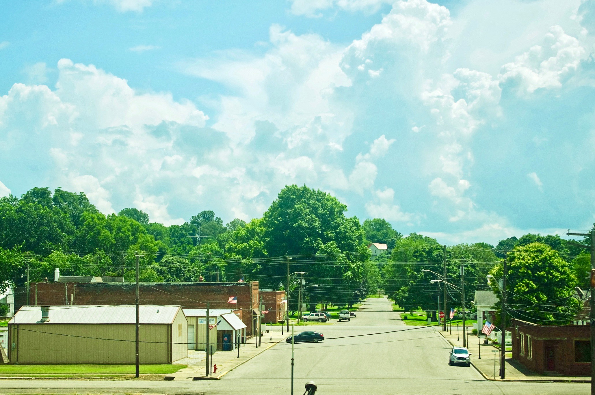 View along Main Street in Uniontown, Kentucky, United States.